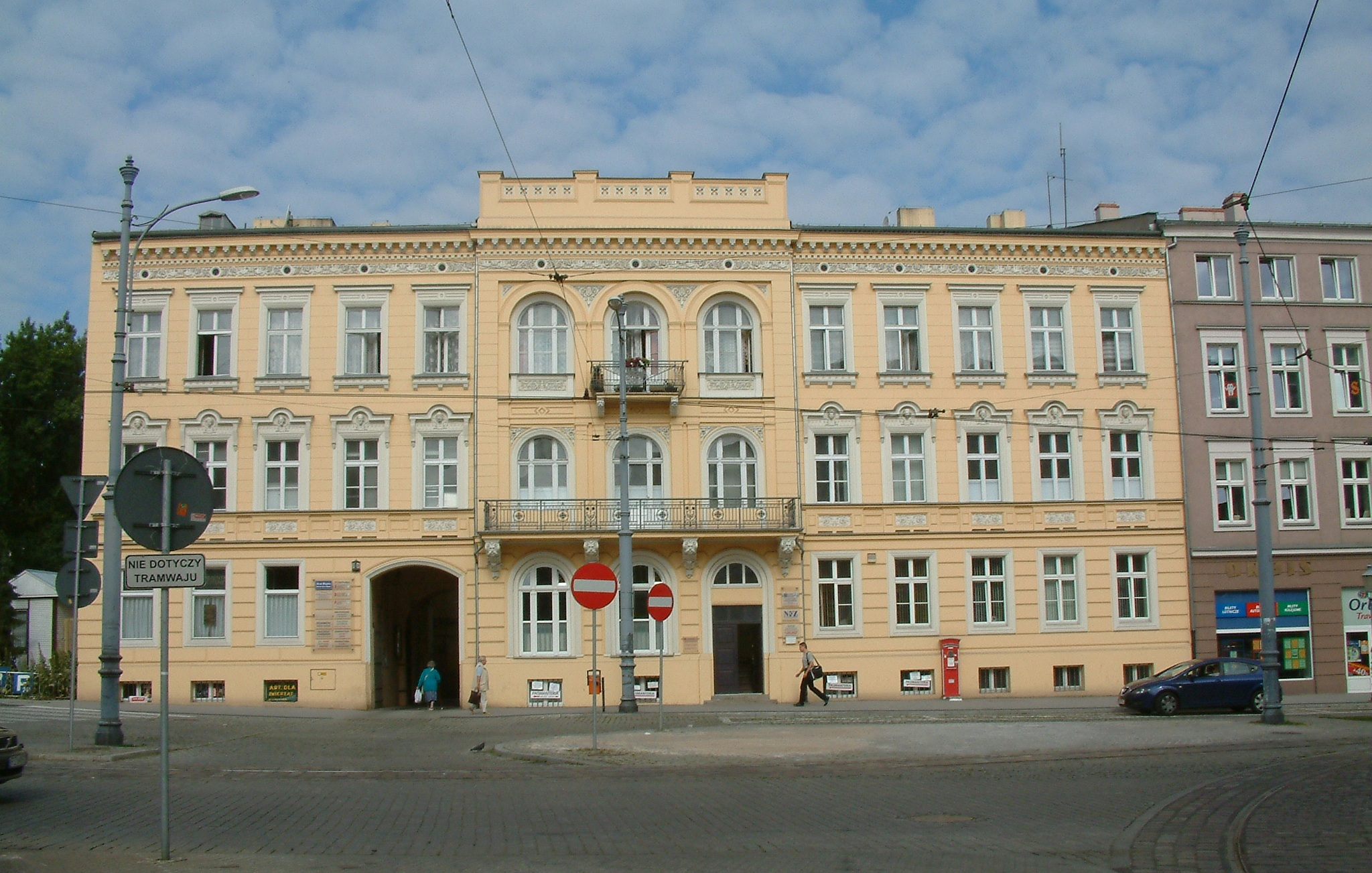 Palace of Andersch family in Poznań